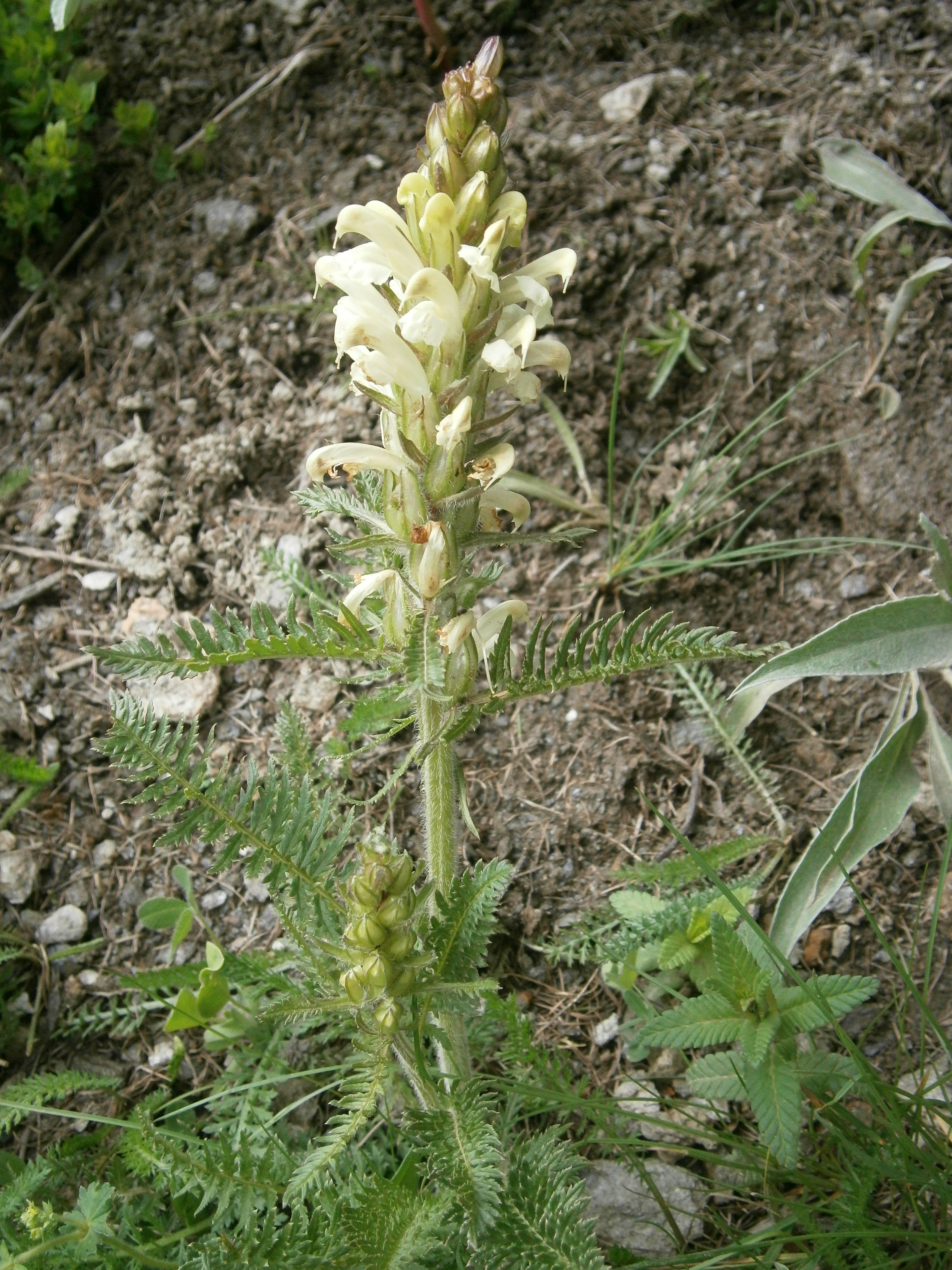 Pedicularis comosa